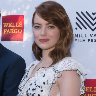 39th Mill Valley Film Festival